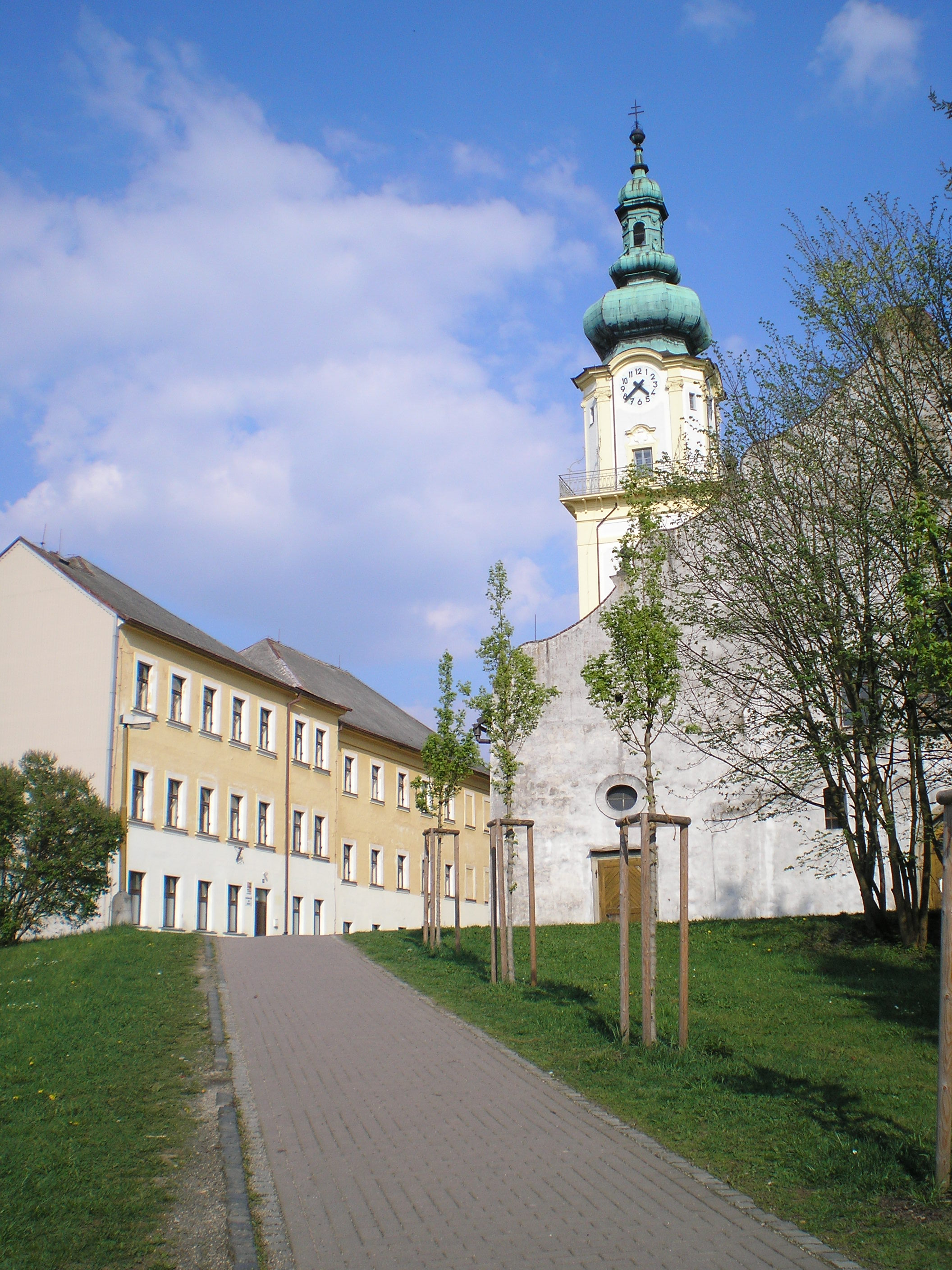 Church of the Assumption in Planá, Tachov District, Czech Republic.